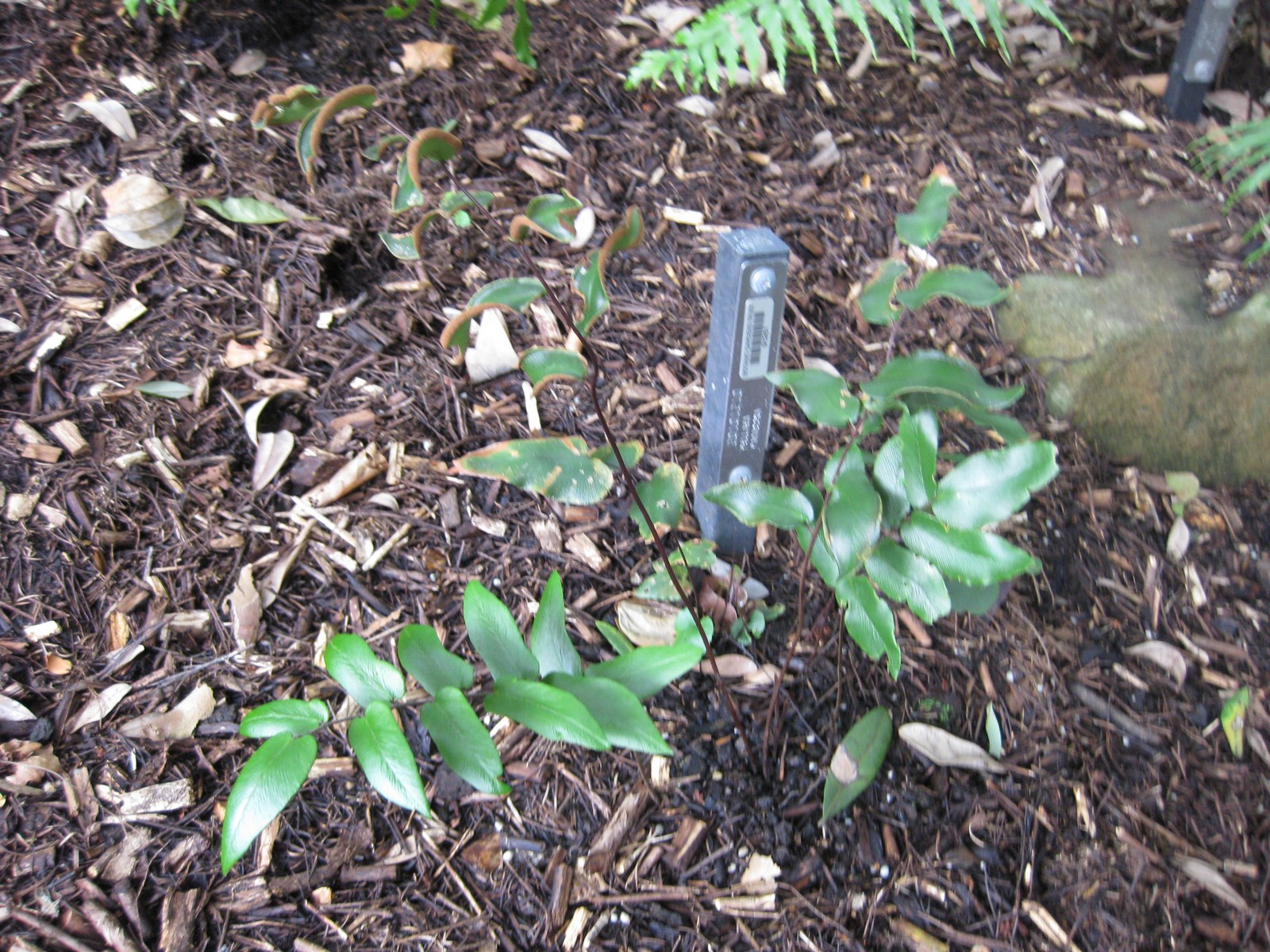 Photographed at the Royal Botanic Gardens Sydney (Australia) in January